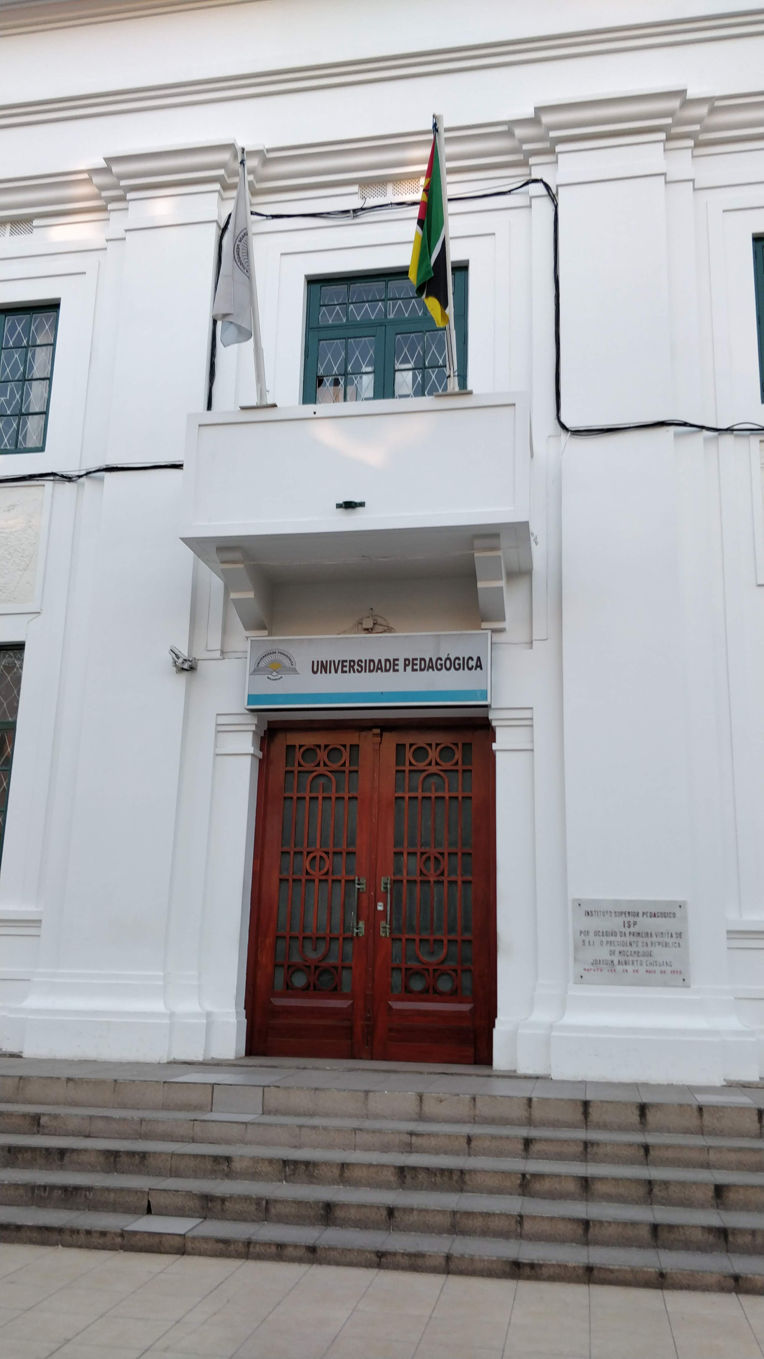 Pedagogical University, Maputo